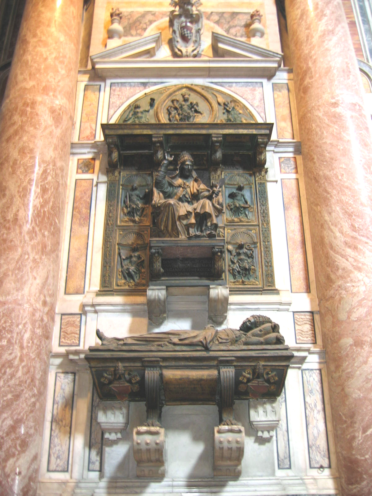 Tomb of Pope Innocent VIII, San Pietro in Vaticano, Roma